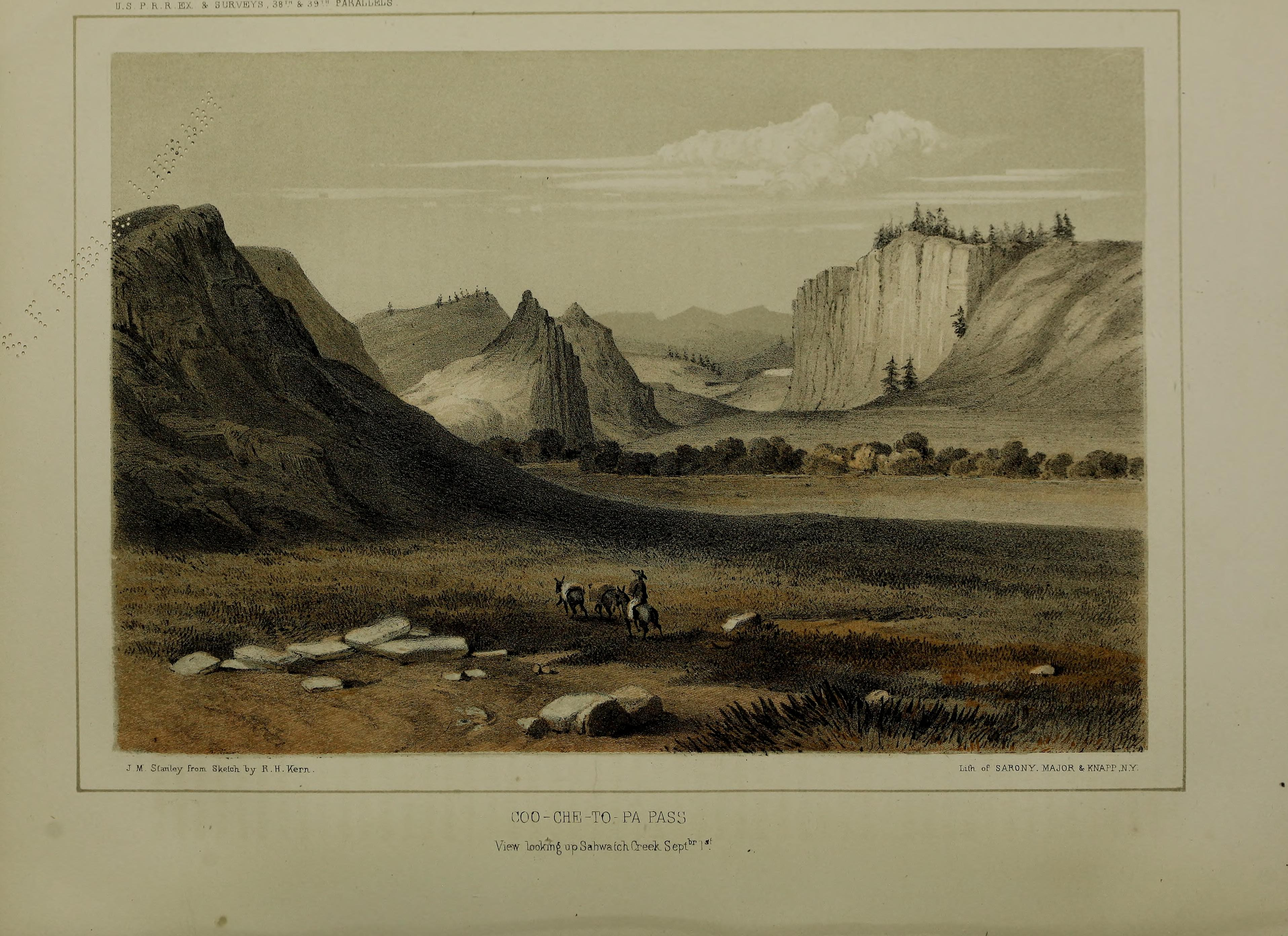 Title: Reports of explorations and surveys, to ascertain the most practicable and economical route for a railroad from the Mississippi River to the Pacific Ocean Year: 1855 (1850s) Authors: United States. War Dept Henry, Joseph, 1797-1878 Baird, Spencer Fullerton, 1823-1887 United States. Army. Corps of Engineers Subjects: Pacific railroads Discoveries in geography Natural history Indians of North America Publisher: Washington : A.O.P. Nicholson, printer (etc.) Text Appearing Before Image: s, and then turned west, following the Sahwatch creekfor six miles, where we crossed it for the last time, and left the main Indian trail which still fol-lows that creek, which rises considerably to the south. This main trail is said to lead throughthick forests of timber, through which it would require much labor to open a wagon road to Car-neroPass, equal if not superior to that of our route. We pursued for three miles a fine branch ofthe Sahwatch, coming in from the north, when we left it, and, turning west, followed a branch ofthis creek, and after a march of fifteen miles, encamped where a low opening in the mountainsafforded a small supply of grass, and enabled us to enter and encamp with our train. Thevalley of the Sahwatch to-day continued narrow, as at our camp last evening, and the trav-elling in it very fine, at this dry season. The valley of the next branch was still narrower,varying from 130 yards to 150 feet, and the travelling equally fine; and in the succeeding valley, Text Appearing After Image: '